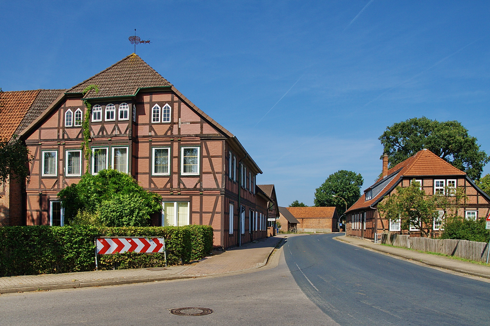 Village of Bröckel, Lower Saxony, Germany